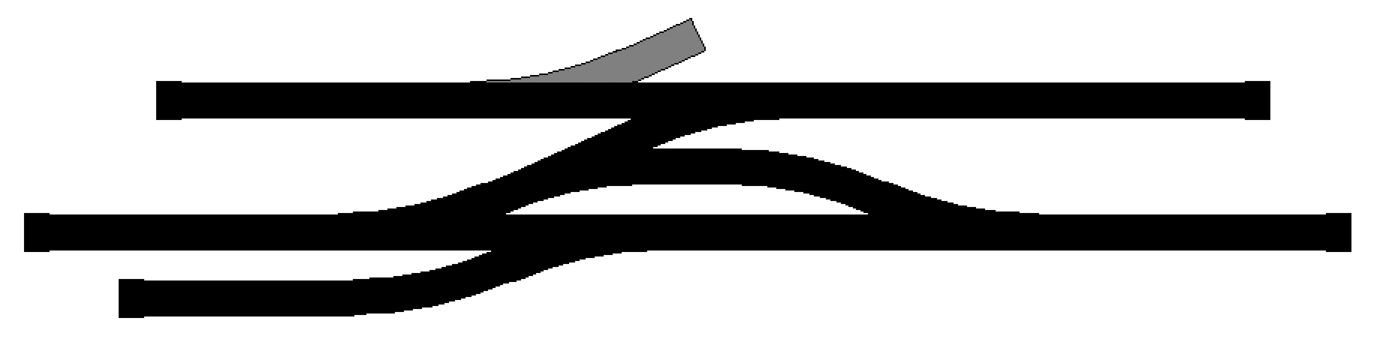 Plan Timesaver